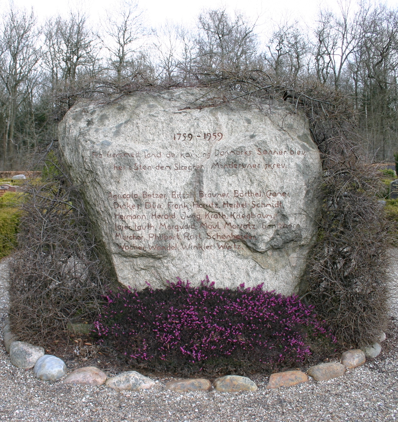 Memorial stone for German immigrants that came to Denmark in 1759, the socalled Potato Germans. Frederiks churchyard SW of Viborg, Denmark.